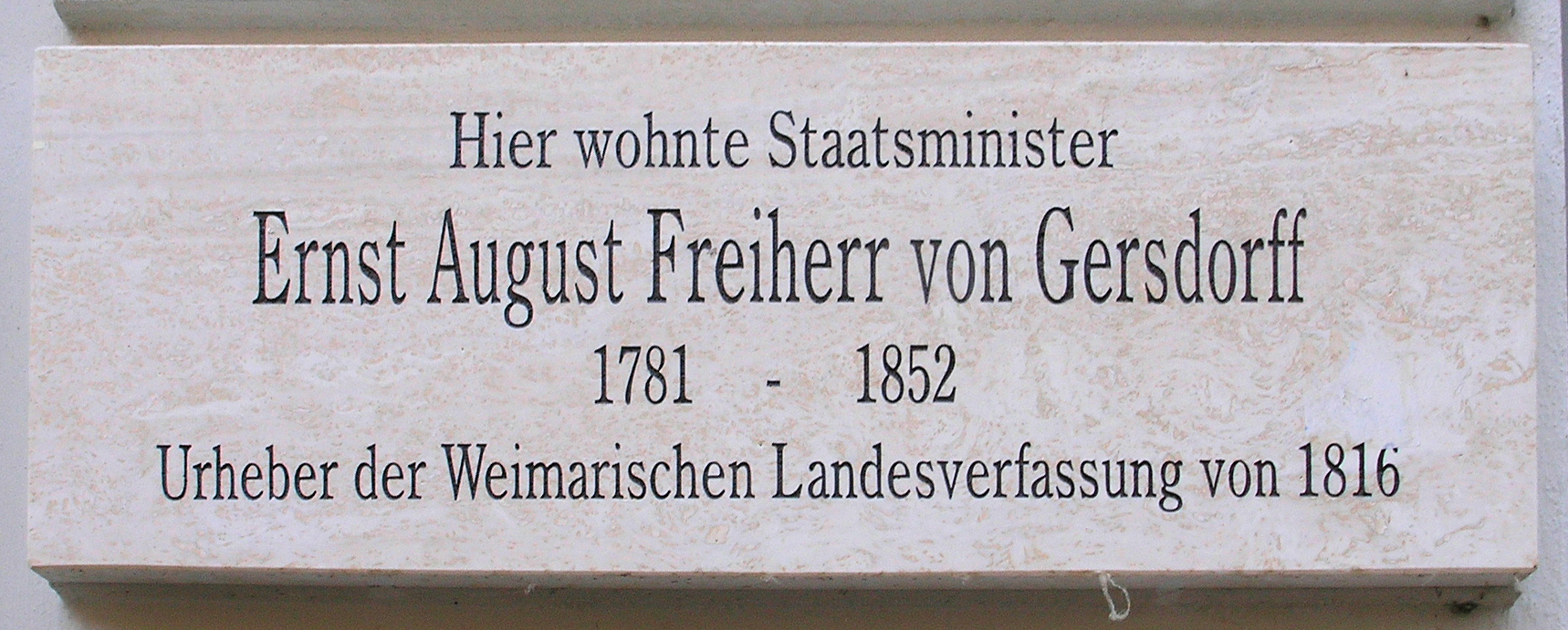 Memorial plaque, Ernst Christian August von Gersdorff, Wielandstraße 2, Weimar, Germany